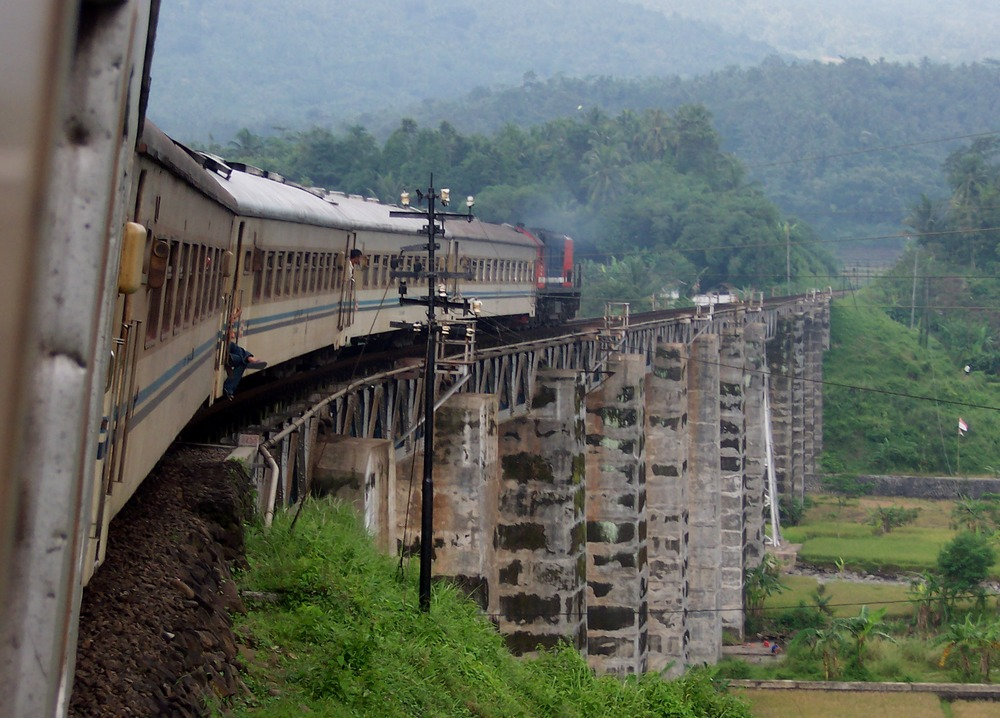 Sawunggalih Utama train passing Sakalimolas bridge, Bumiayu, Central Java.